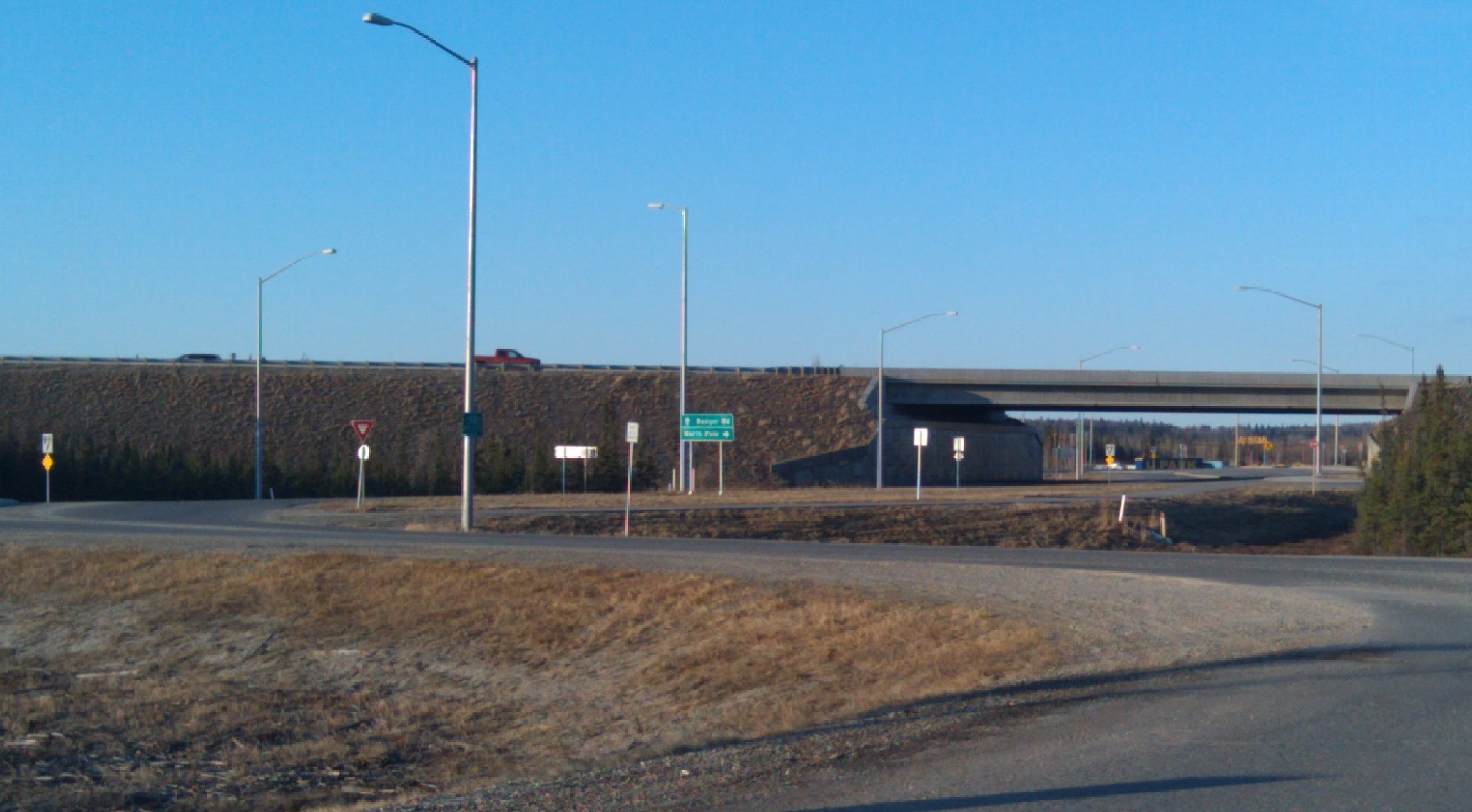 The interchange of the Richardson Highway and Badger Road, in the southeast corner of the city limits of Fairbanks, Alaska.